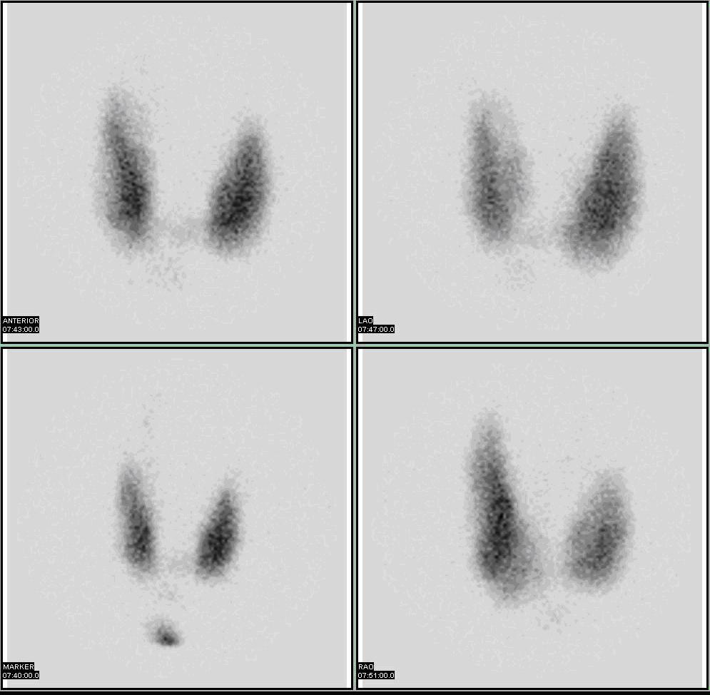 Myo Han. I123 thyroid scan.